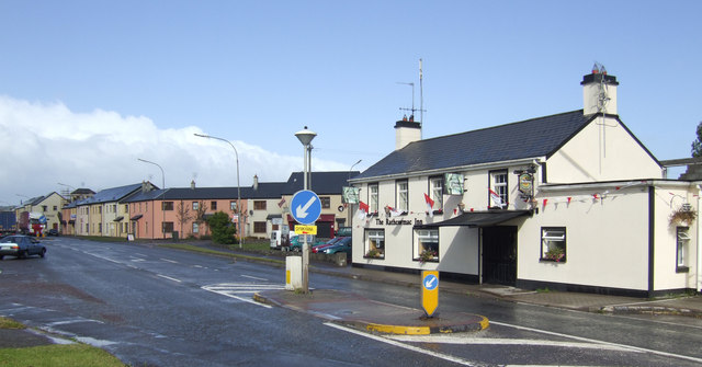 The Rathcormac Inn Well situated on the N8; the main Cork to Dublin road.